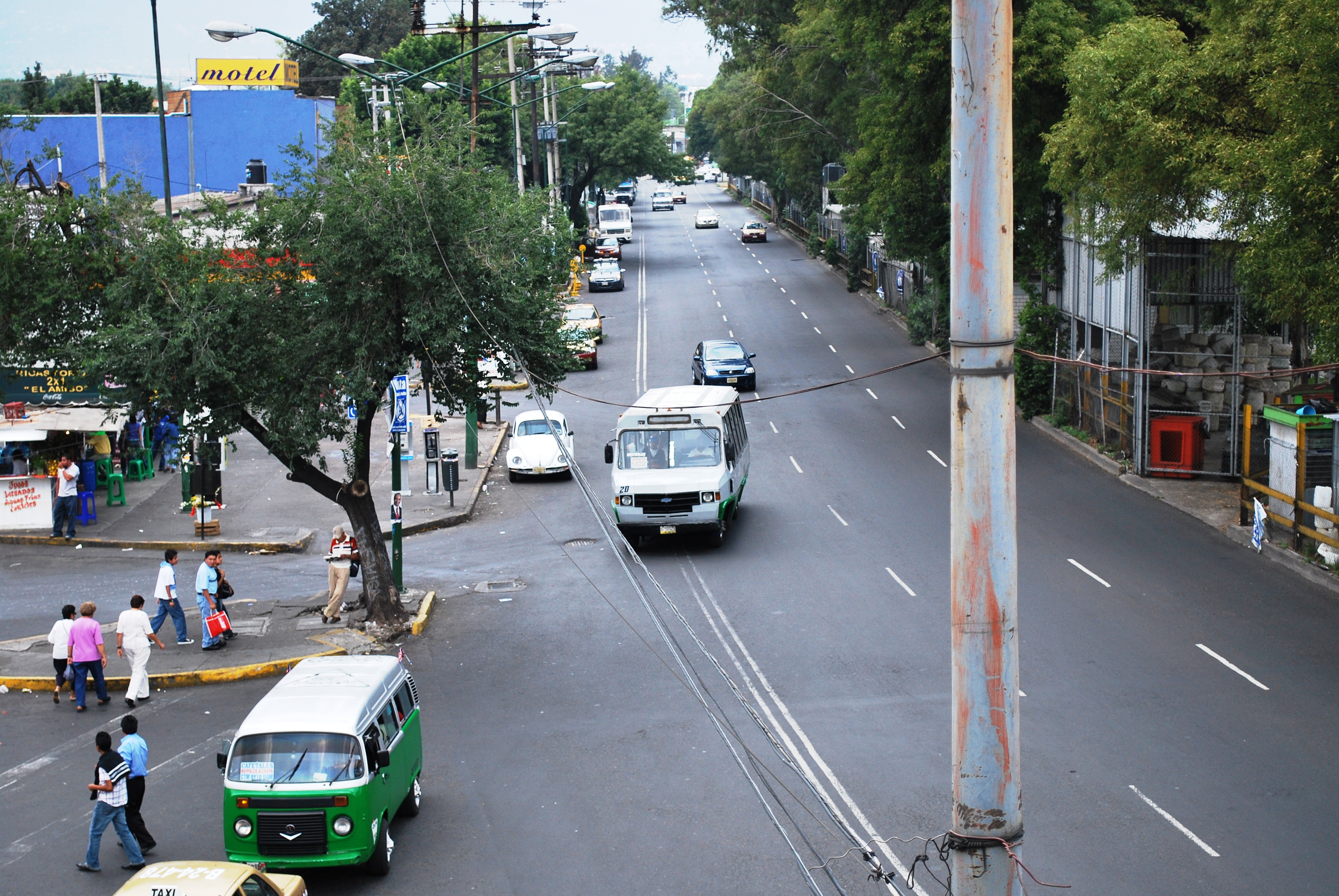 "Micros" on Calzada de Tlalpan near Estadio Azteca in Mexico City